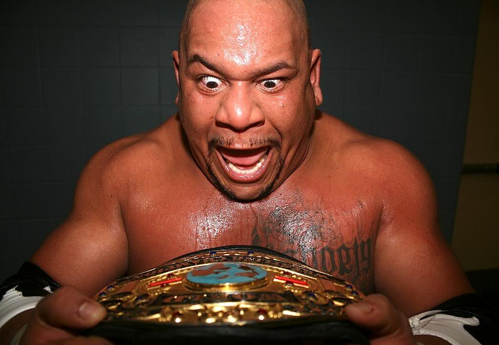 Dan Maff after winning the JAPW Title at the 14th Anniversary Show